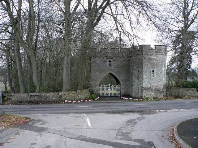 Gateway on Corntown Road, opposite Stony Lane, Ewenny The gateway is associated with Ewenny Priory.